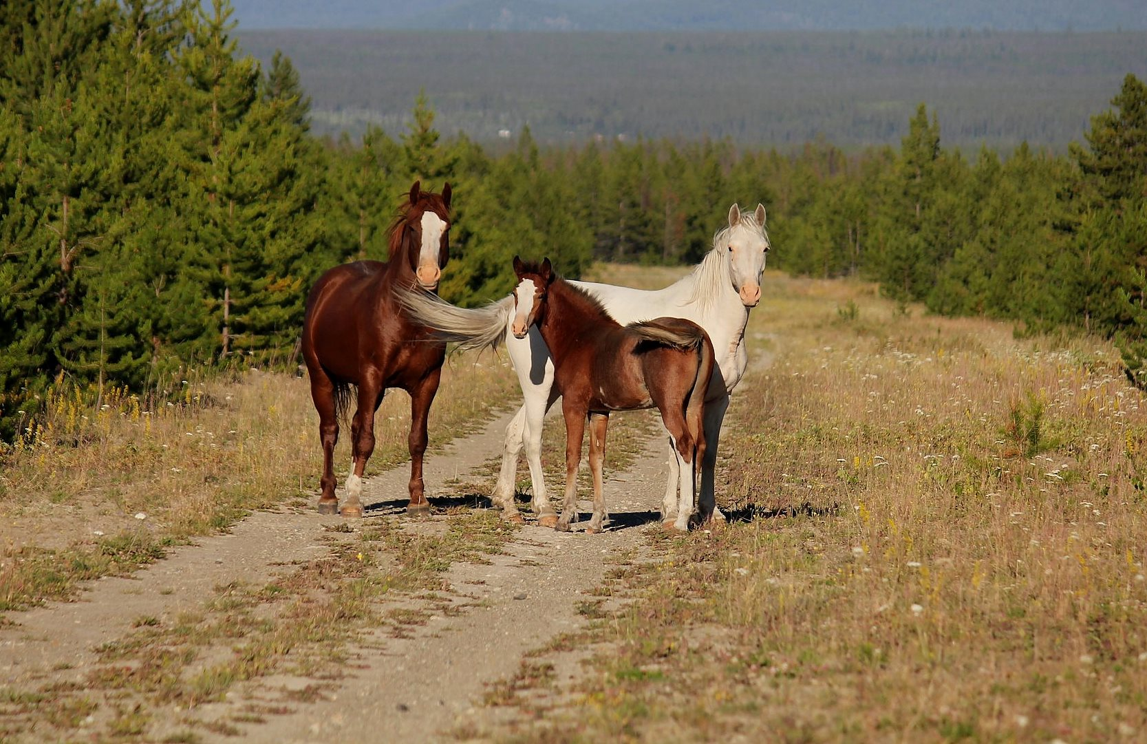 A family of wild horses on the old Tatla Lake air strip, near Martin Lake, BC.